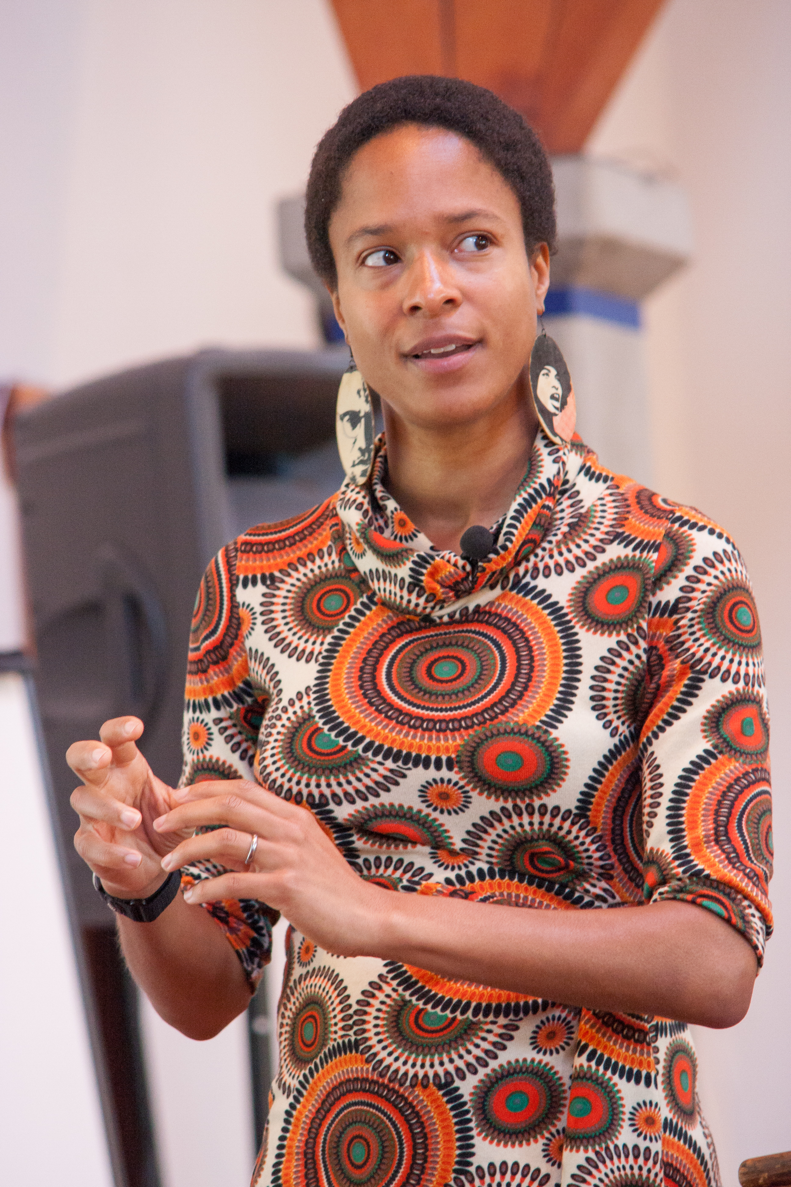 Dr. Amie Breeze Harper speaks at the Intersectional Justice Conference at the Whidbey Institute.